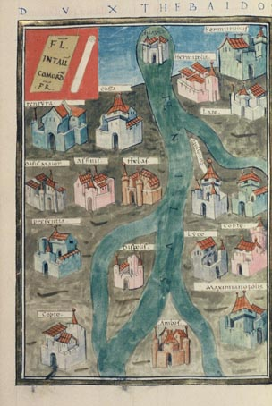 Dux Thebaidos from Notitia dignitatum